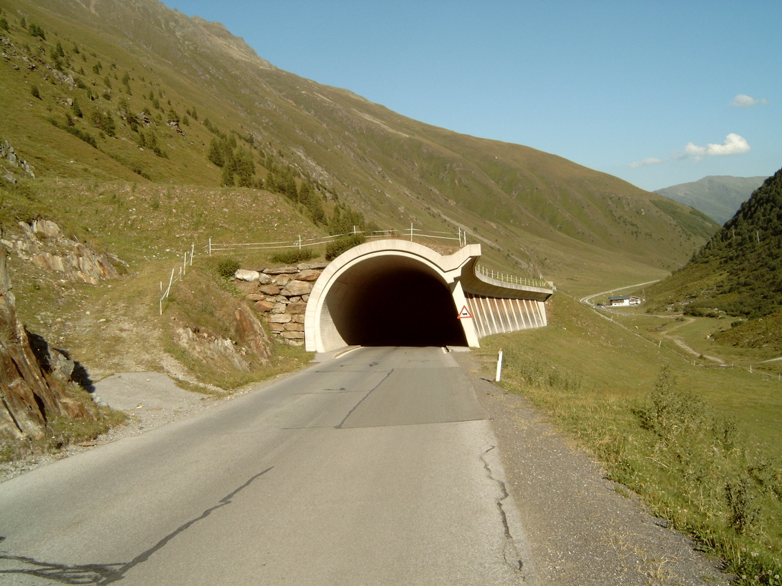 "Kühtaisattel", avalanche protection tunnel in east ramp